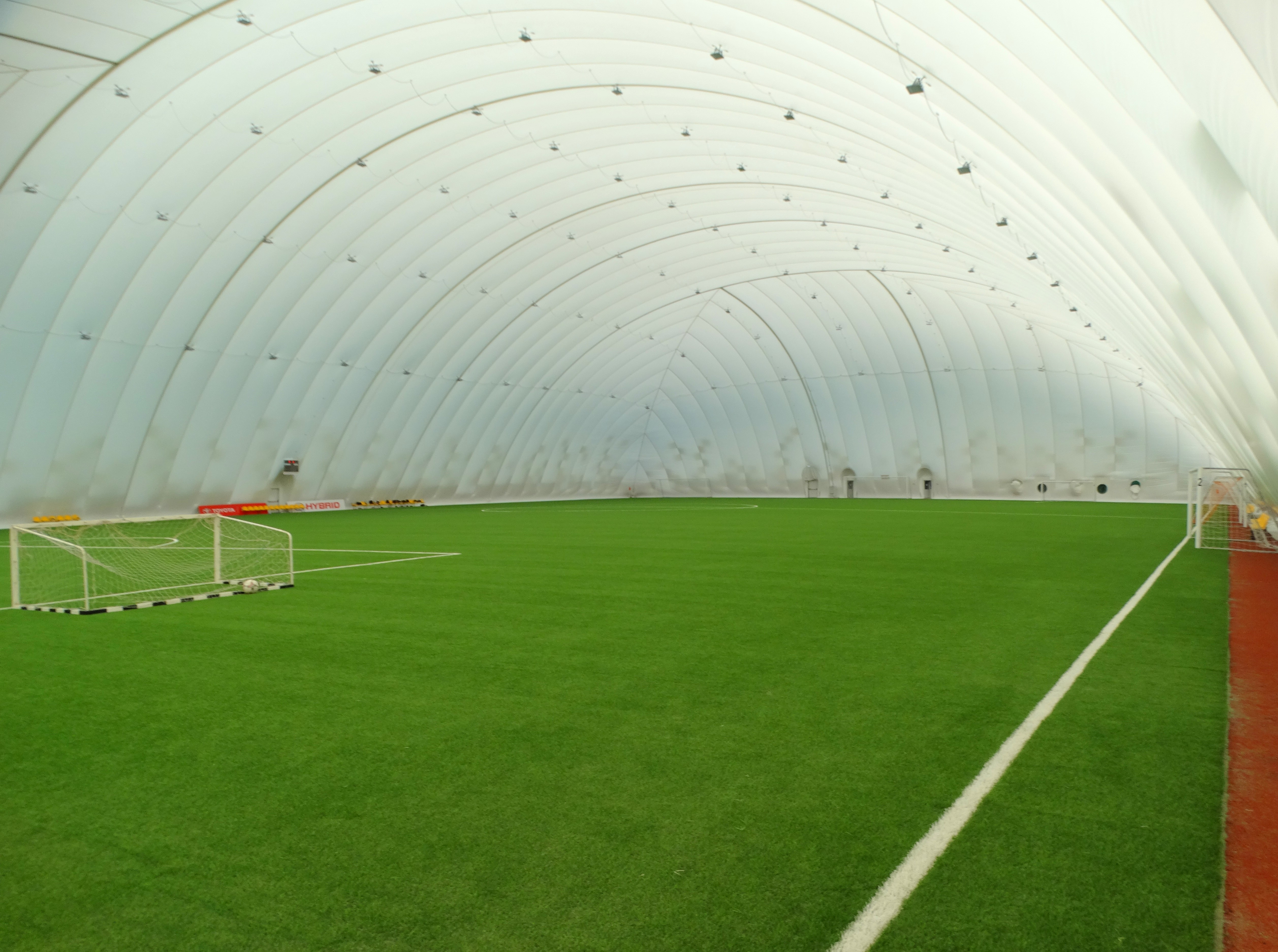 Inflatable indoor arena, Kaunas, Lithuania